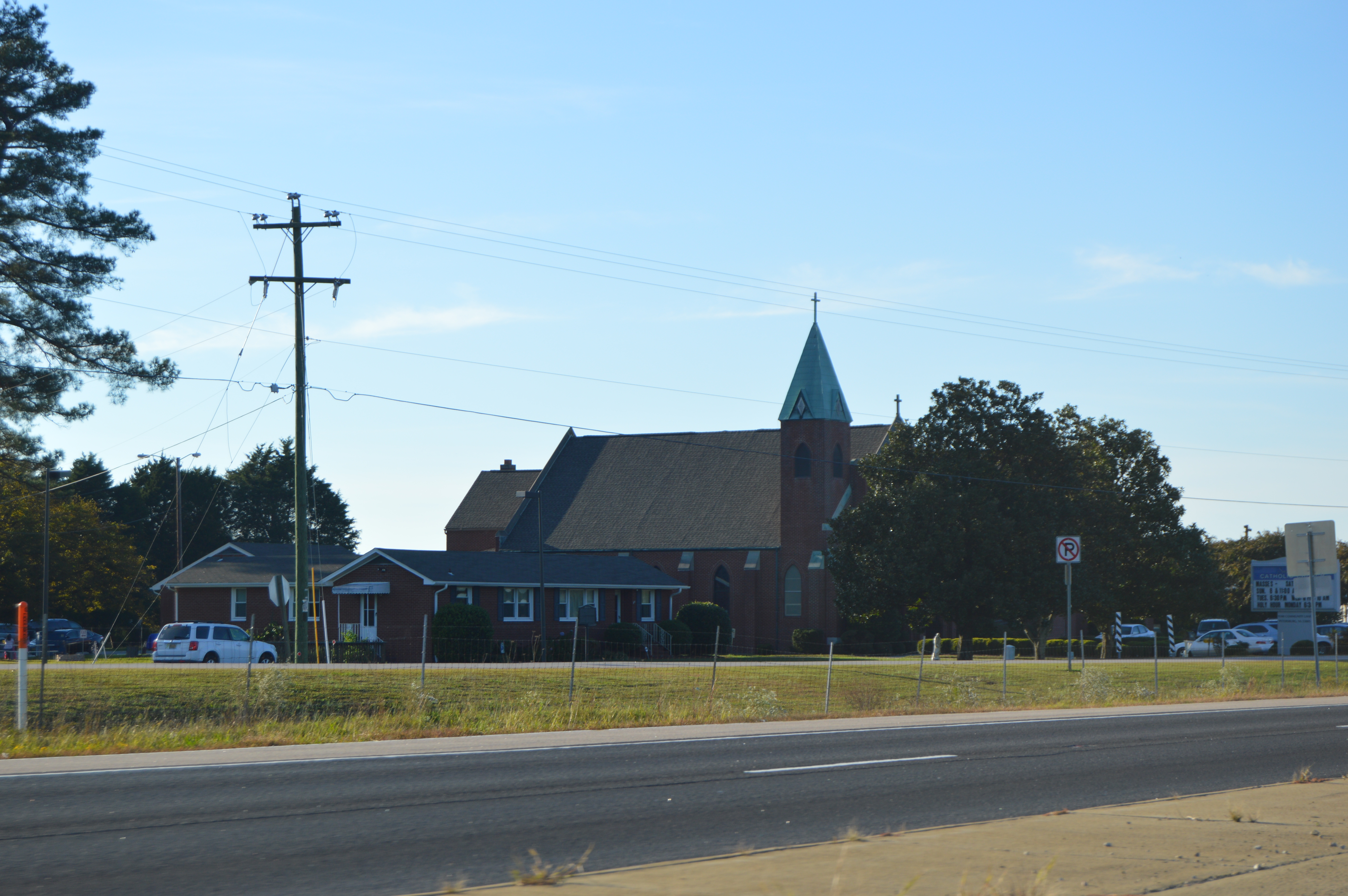 Distant view from the west of Sacred Heart Catholic Church, located along U.S. Route 460 at 9300 Community Lane, just southeast of Petersburg, in Prince George County, Virginia, United States. Built in 1906, it is listed on the National Register of Historic Places.